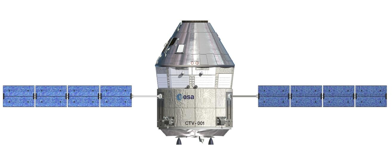 Possible design for the ARV (Advanced Return Vehicle) spacecraft